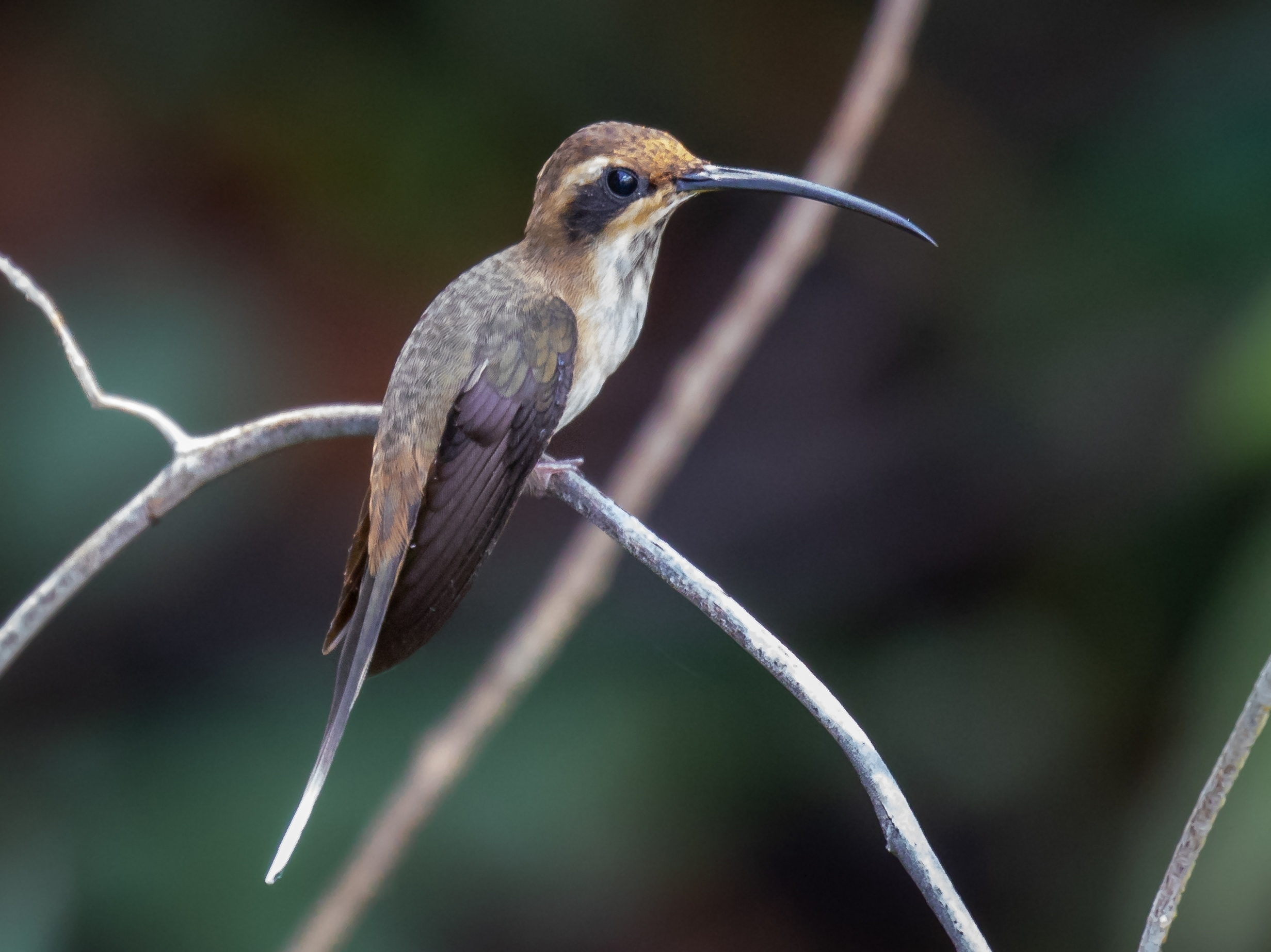 Streak-throated hermit; Anavilhanas islands, Novo Airão, Amazonas, Brazil